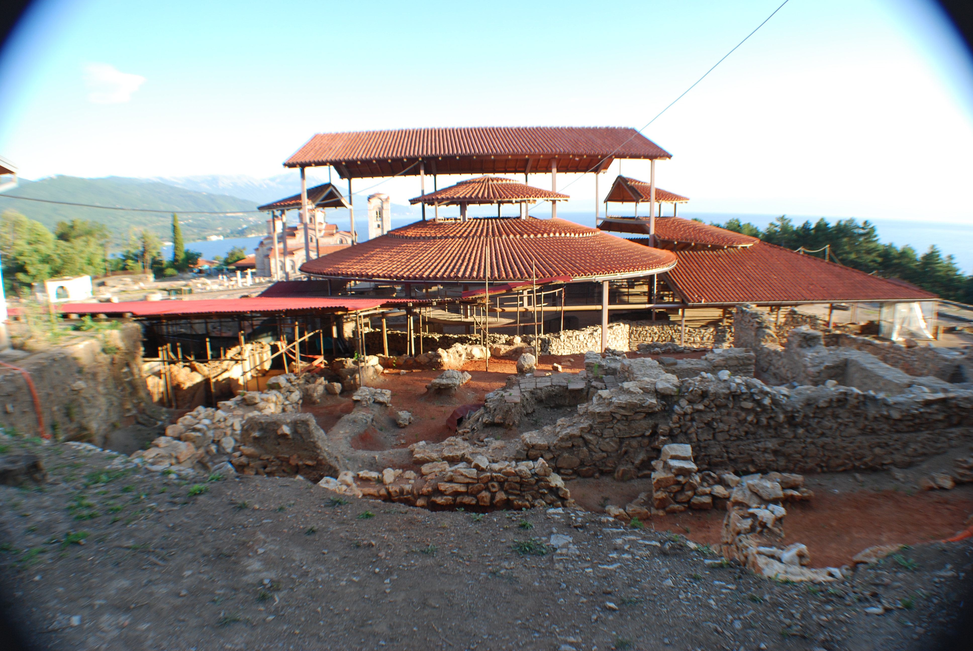 Early Christian sacral building from the 5th century at Plaošnik, Ohrid, Macedonia